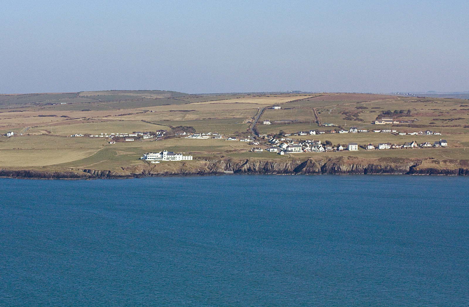 Gwbert, Ceredigion